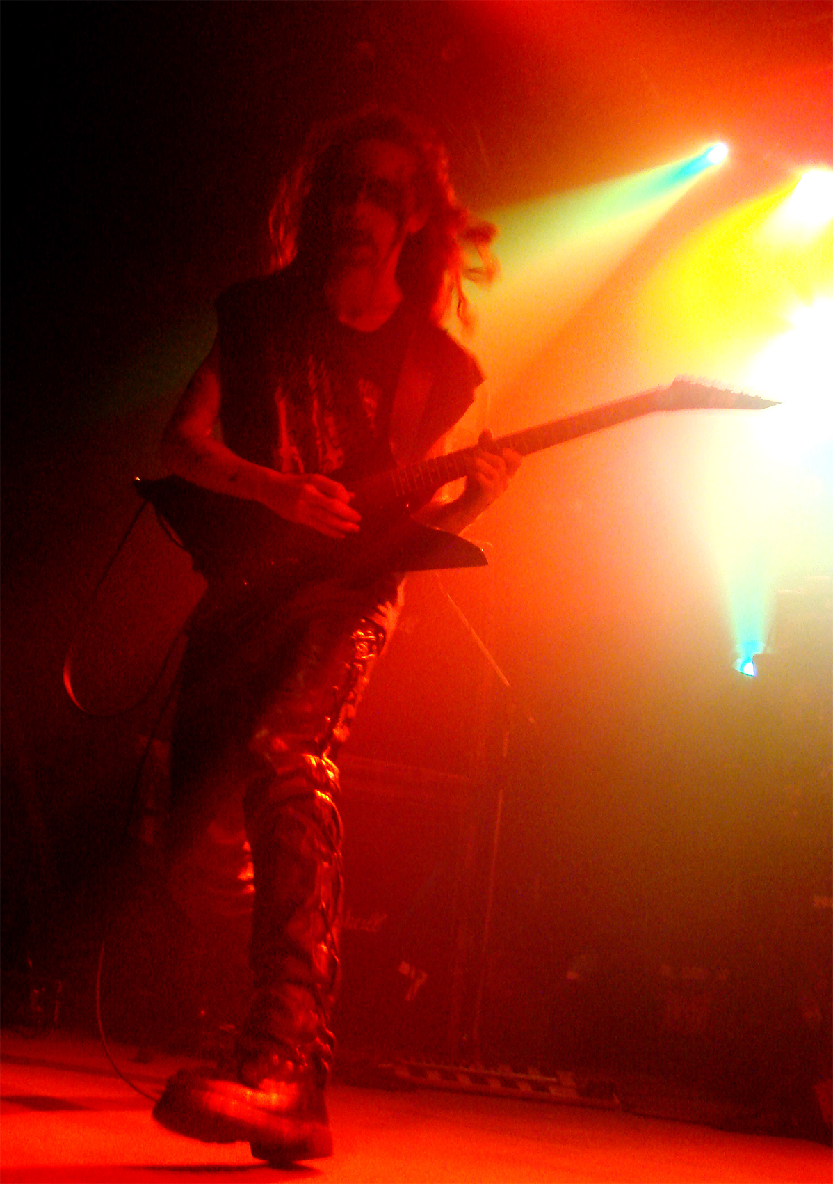 Enthroned during their concert in La Locomotive, Paris, 20/11/07. Nguaroth: guitar and vocals.